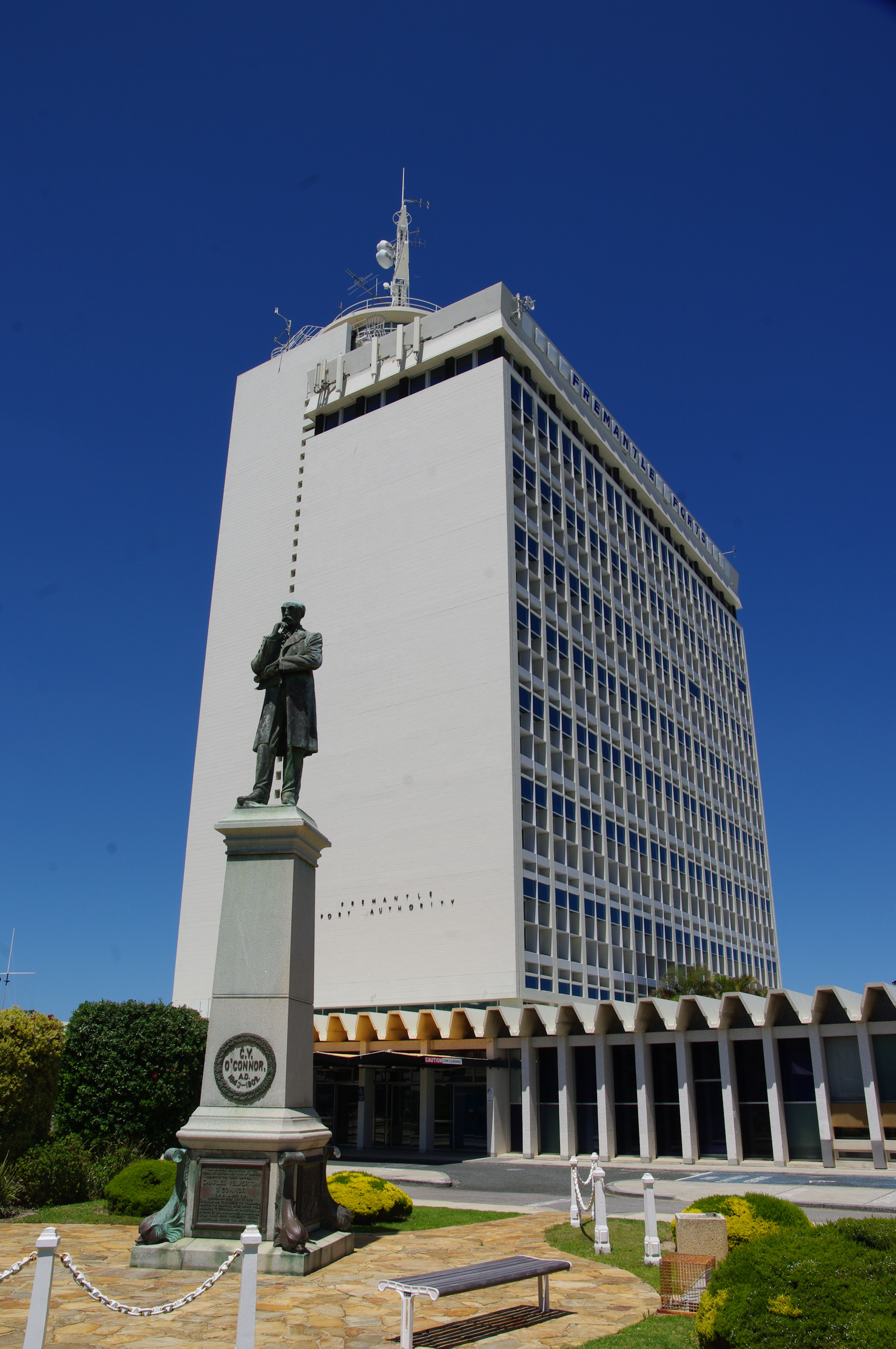 Wiki takes Fremantle 2 CY O'Connor statue in front of the Fremantle Port Authority building